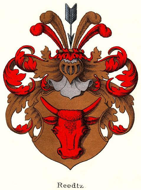 Coat of arms of the Reedtz family